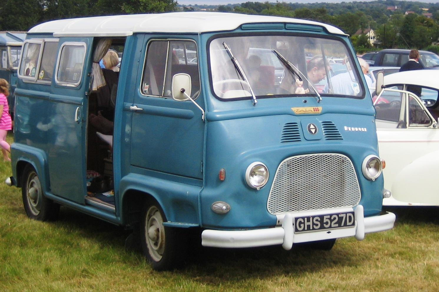 Renault Estafette rhd with extra windows in Essex